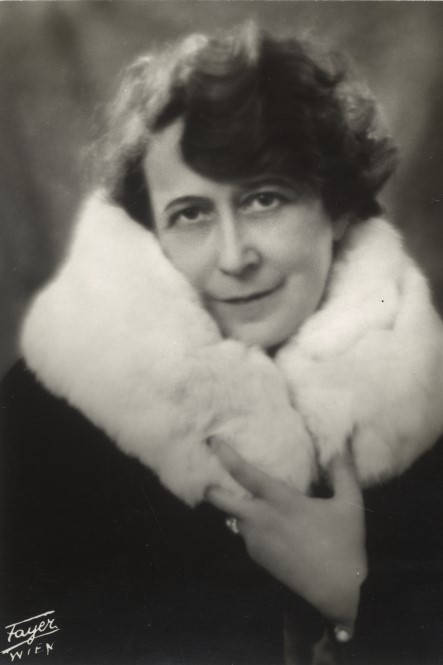 Clara Katharina Pollaczek (1889–1972), Austrian writer.